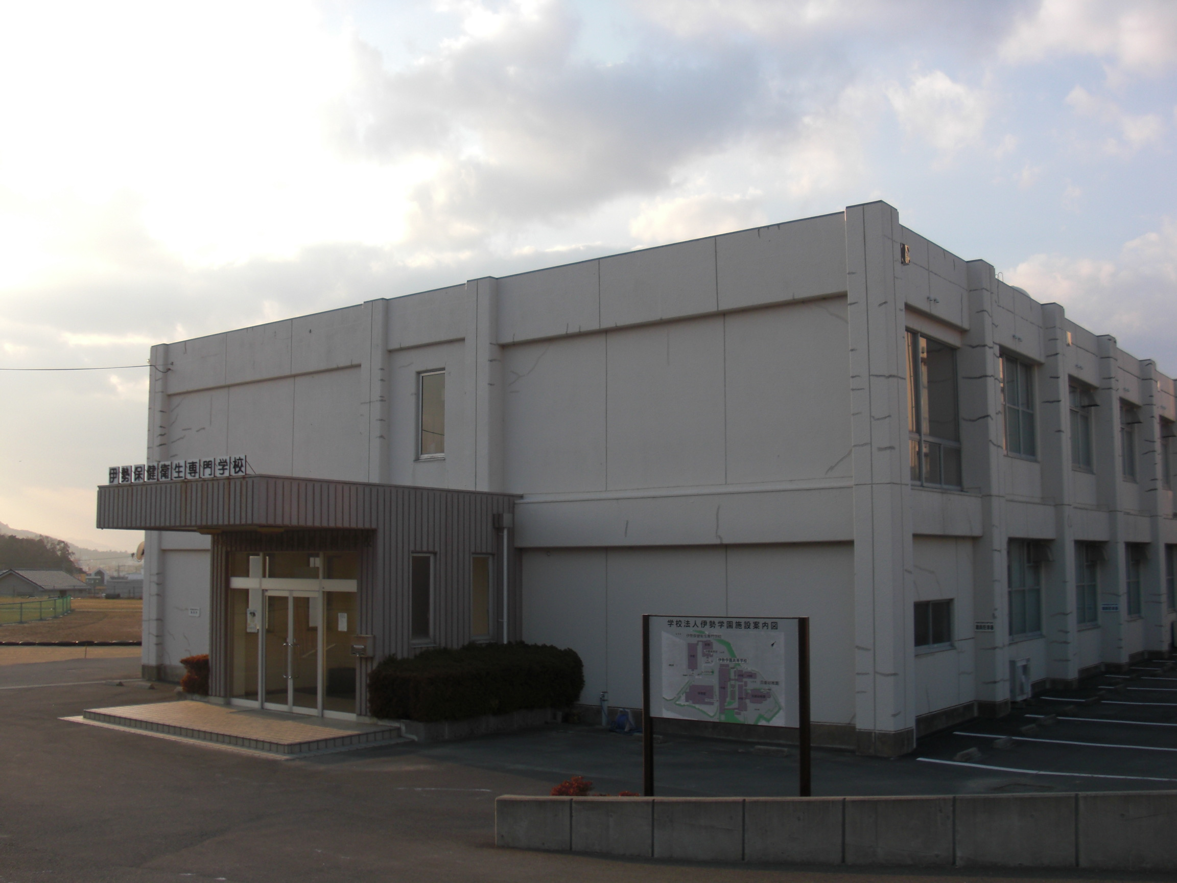 This is the ISE Health & Hygiene College, Which is located in Ise, Mie, Japan.